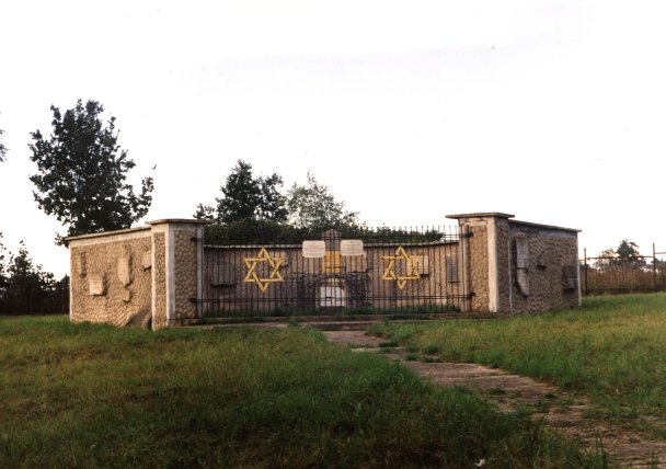 The Jewish Cemetery in Rypin - photo 02